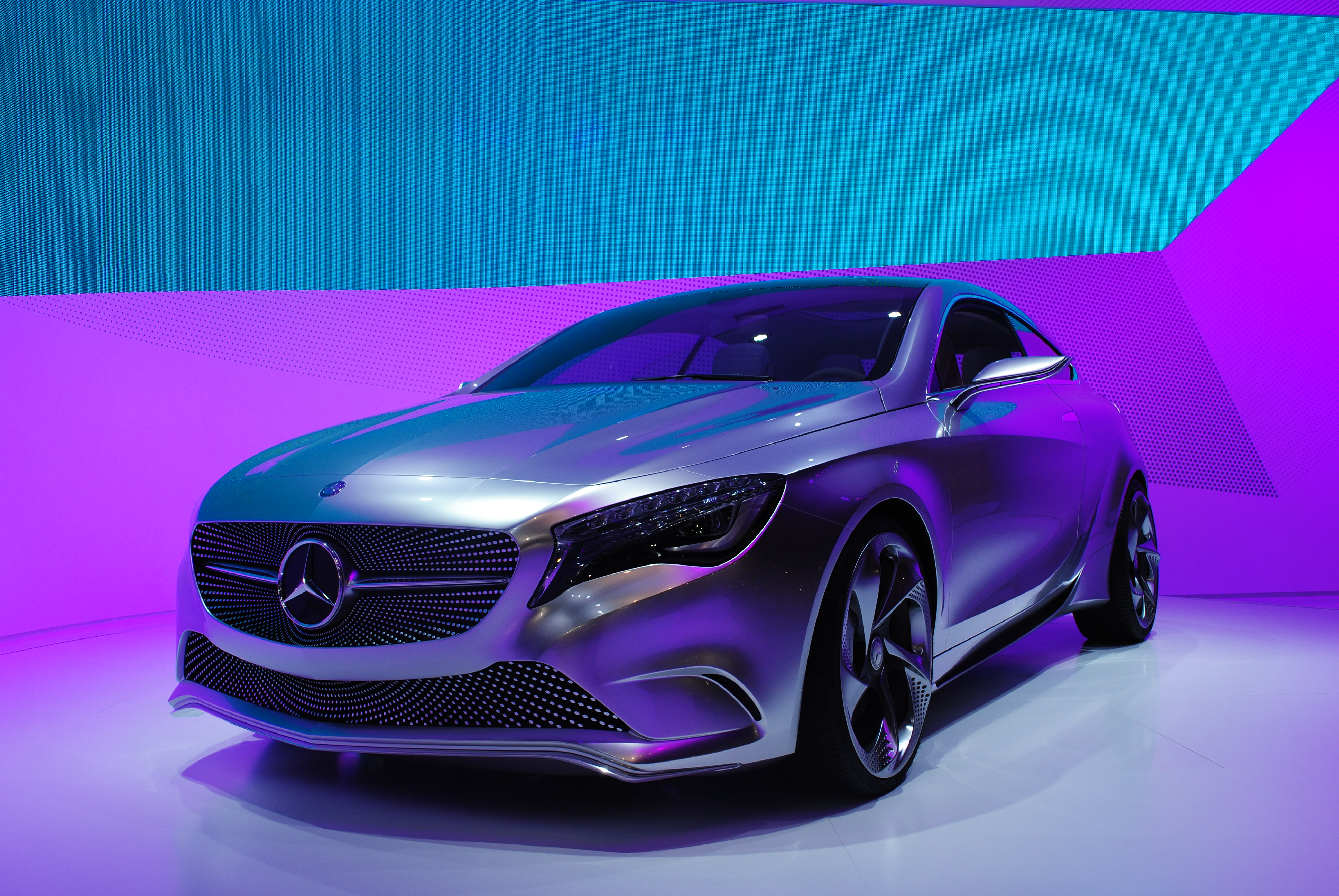 More photos and info